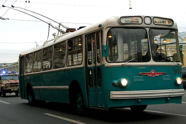 Museum trolleybus ZiU-5 druring the parade of vintage automobiles, Saint-Petersburg.